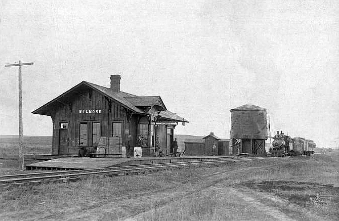 Atchison, Topeka & Santa Fe Railway Company depot in Wilmore, Kansas.